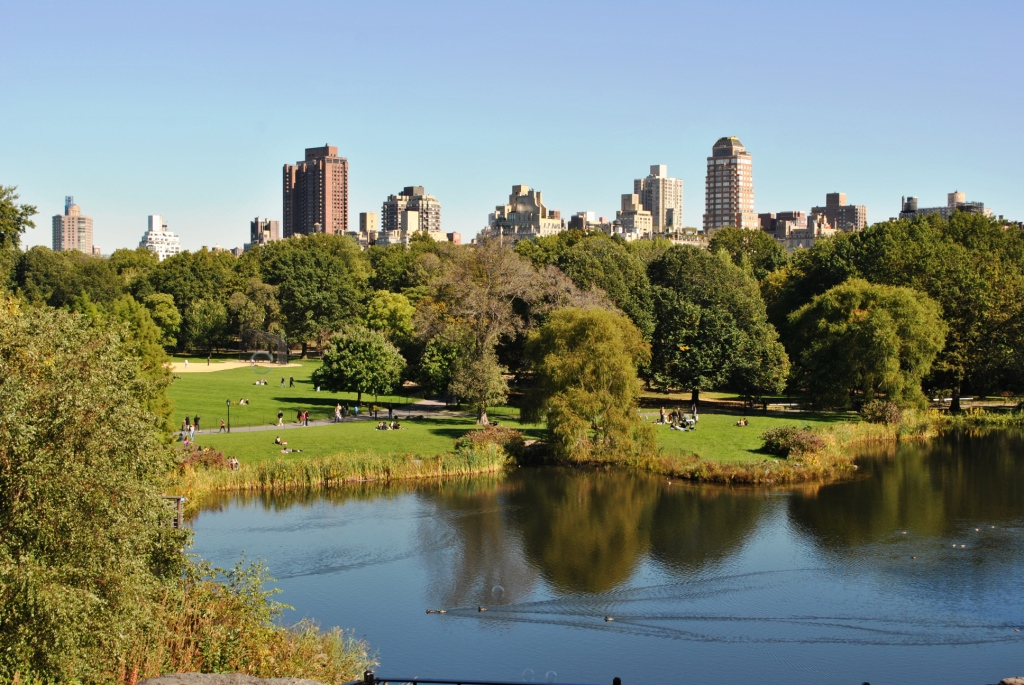 Central Park, Bounded by Central Park S., 5th Ave., Central Park W., 110th St. New York